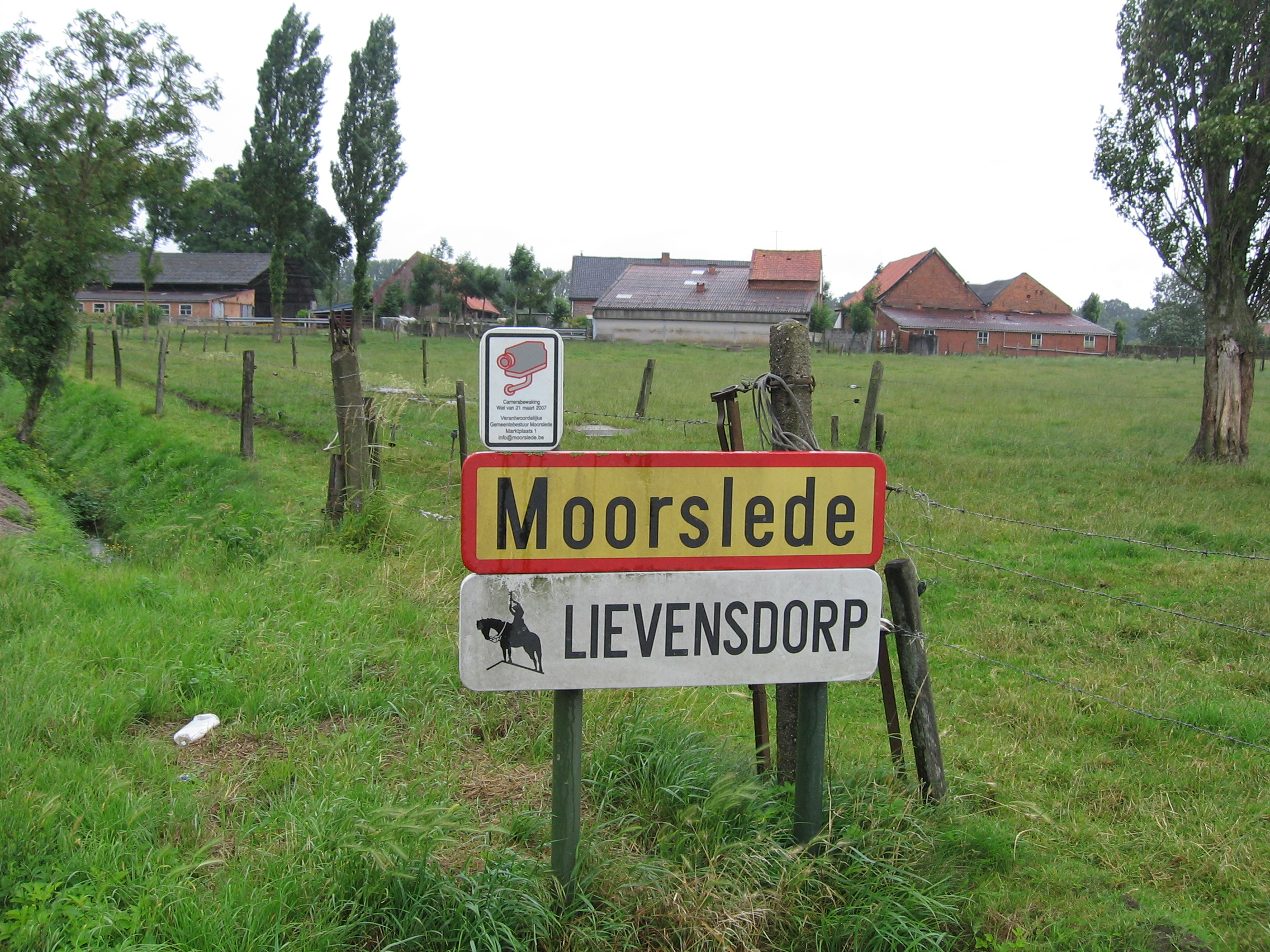 Moorslede, a village in the West-Flanders province of Belgium, is the birthplace of Constant Lievens, the apostle of Chotanagpur (India).